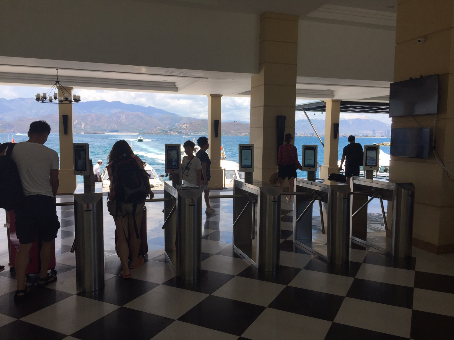 security gate of Vinpearl wharf